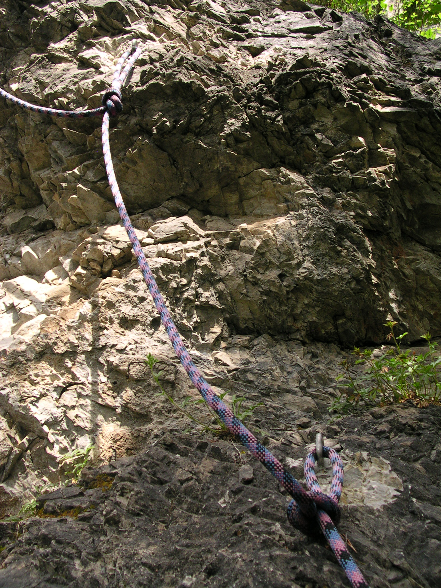 Fixed rope